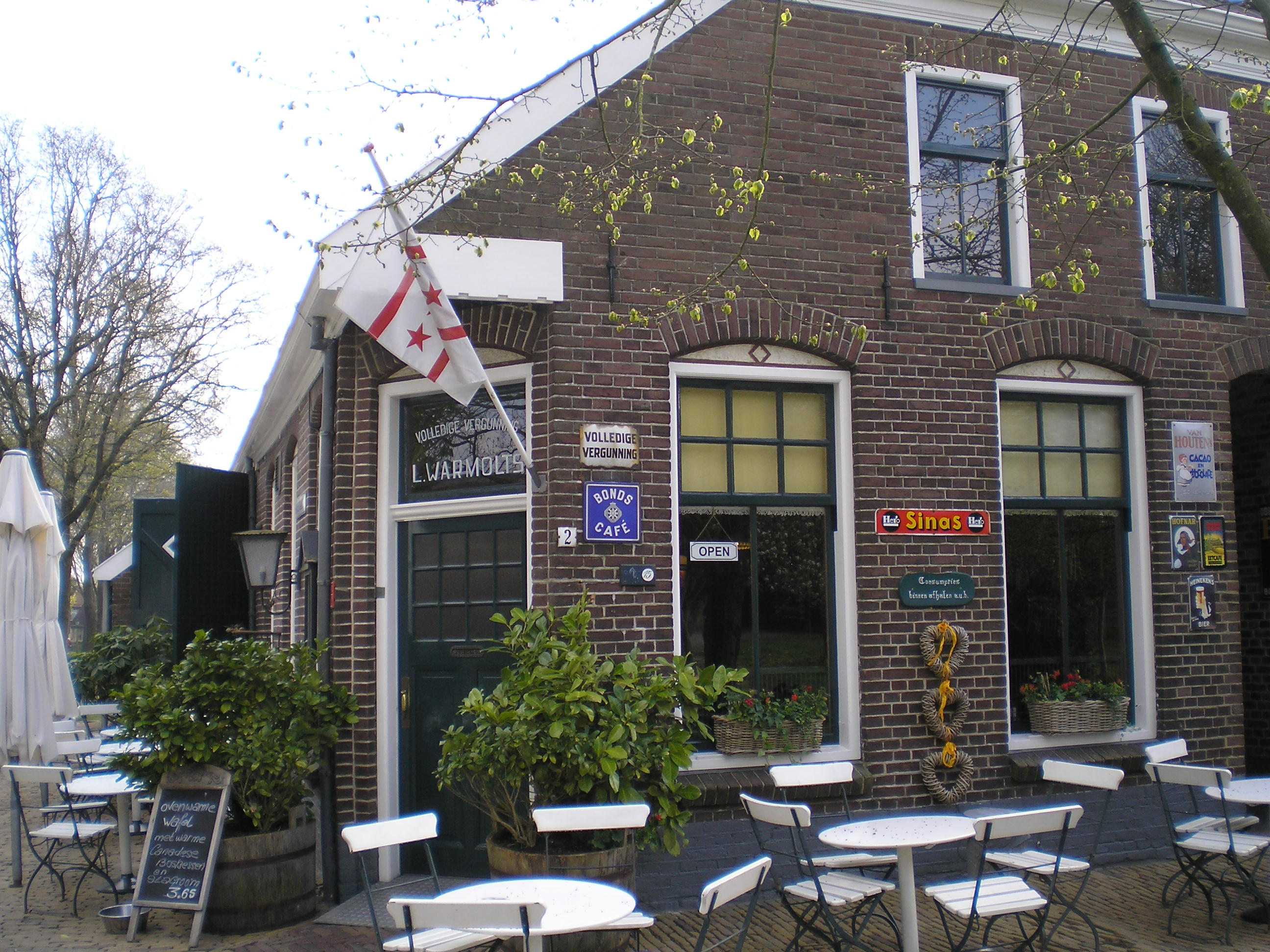 Cafe Schoolstraat 2 in the museum village Orvelte in Netherlands